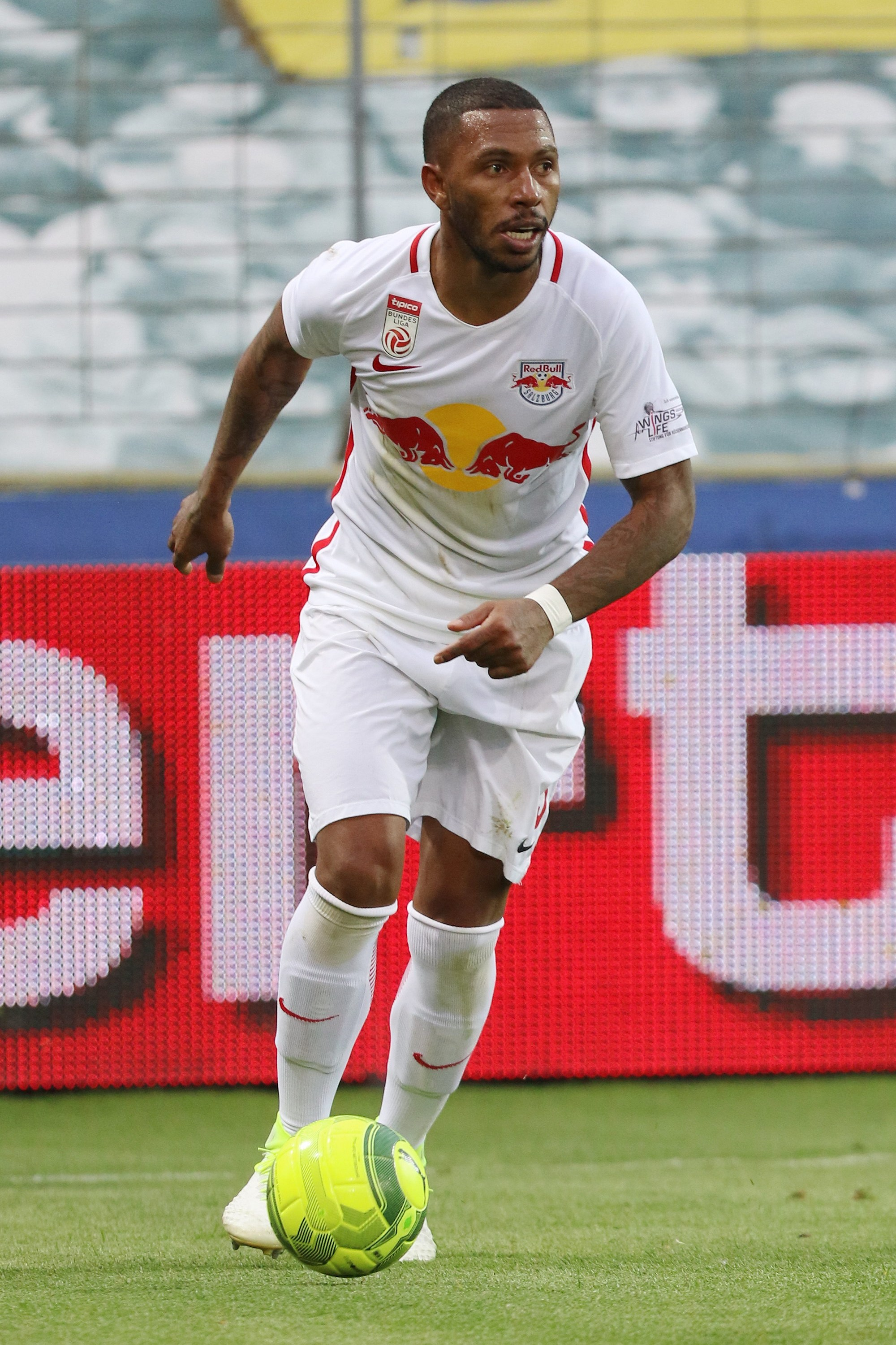 2016–17 Austrian Cup: FC Admira Wacker Mödling (red shirts) vs. FC Red Bull Salzburg (white shirts) at 26. April 2017 in the BSFZ-Arena in Maria Enzersdorf 0:5 (0:2) – The photo shows Paulo Miranda